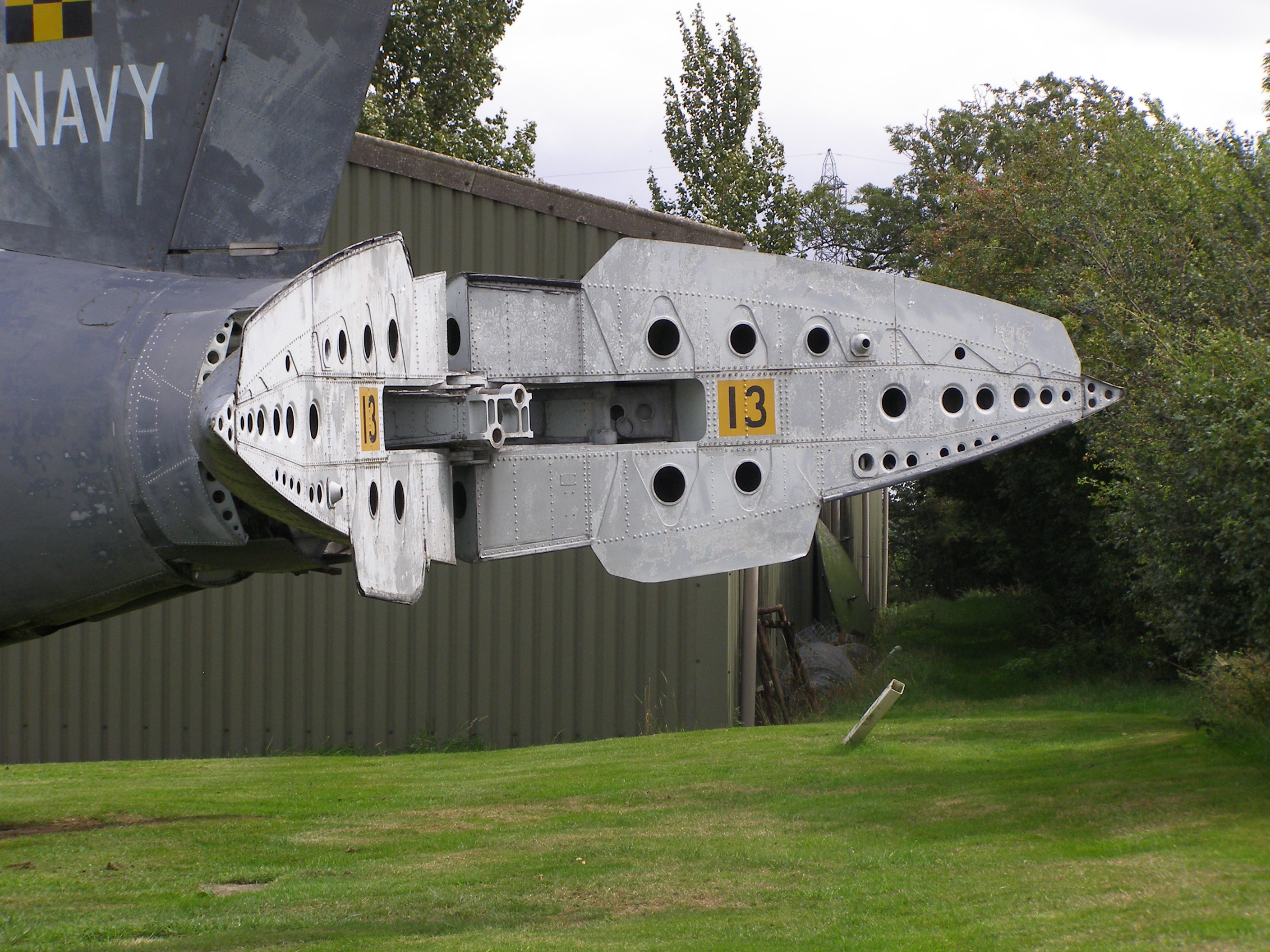 Air Brake on a Buccaneer naval strike aircraft taken at Newark Air Museum